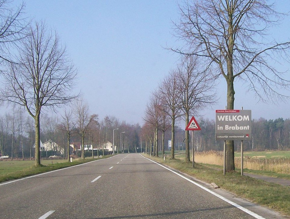 Welkom in Brabant (Welcome to North Brabant), Zundert, Meirseweg